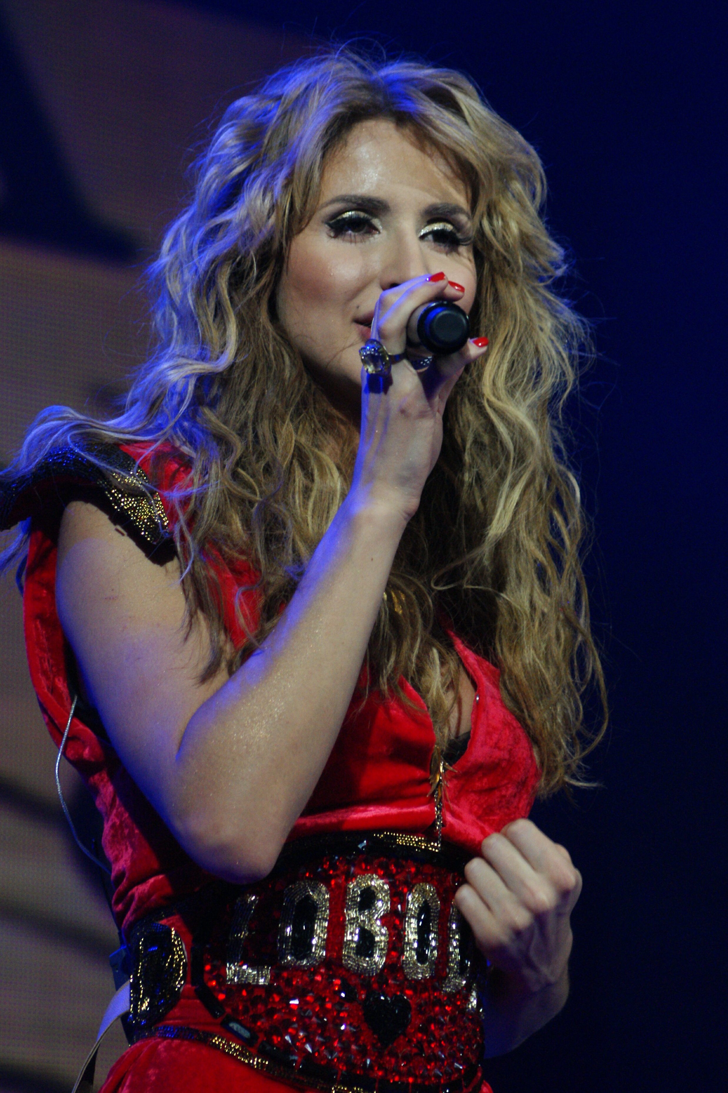 Svetlana Loboda Svetlana Loboda at the Eurovision Song Contest 2009